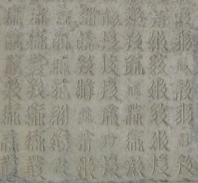 Detail of the Tangut large character inscription on the east wall of the Cloud Platform at Juyongguan, Beijing, China.